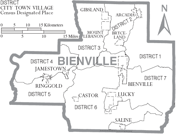 Map of Bienville Parish, Louisiana, United States with district and municipal boundaries